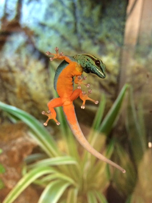 Tanzanian Electric Blue Gecko at DZP